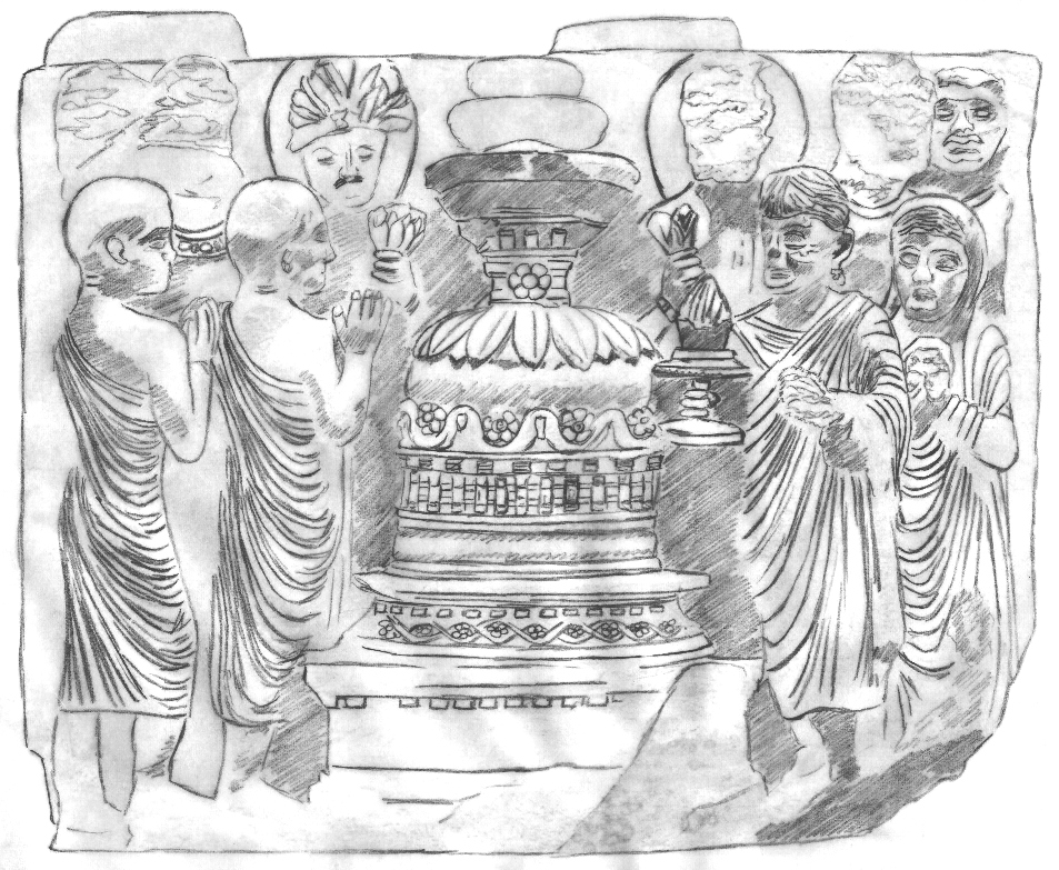 Devotee couple in Greek dress (right), husband bearing a lamp, circambulating around a stupa. Gandara frieze. British Museum. Personal drawing. For another frieze on the same theme